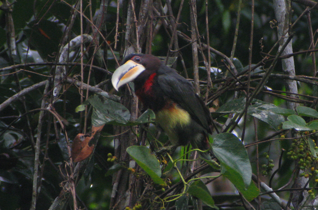 A Ivory-billed Aracari in Cuyabeno Wildlife Reserve, Ecuador.